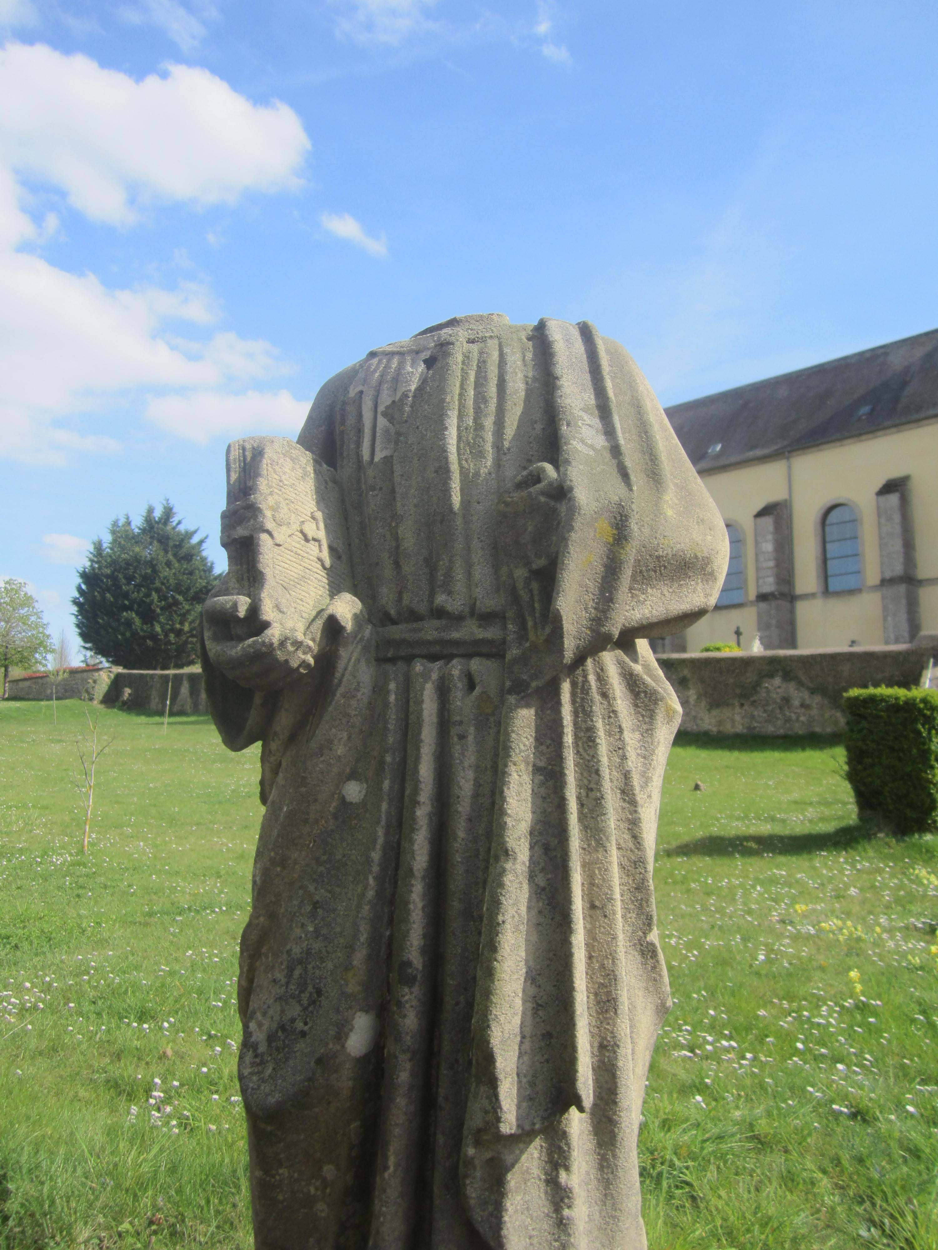 Decapitated statue of St Paul. The head was placed outside the presbytery door for the priest to find.